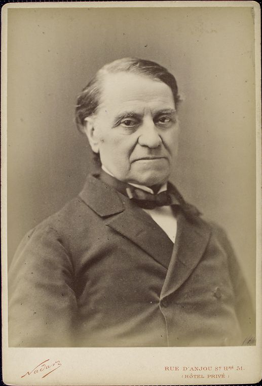 Portrait of French politician Louis Blanc